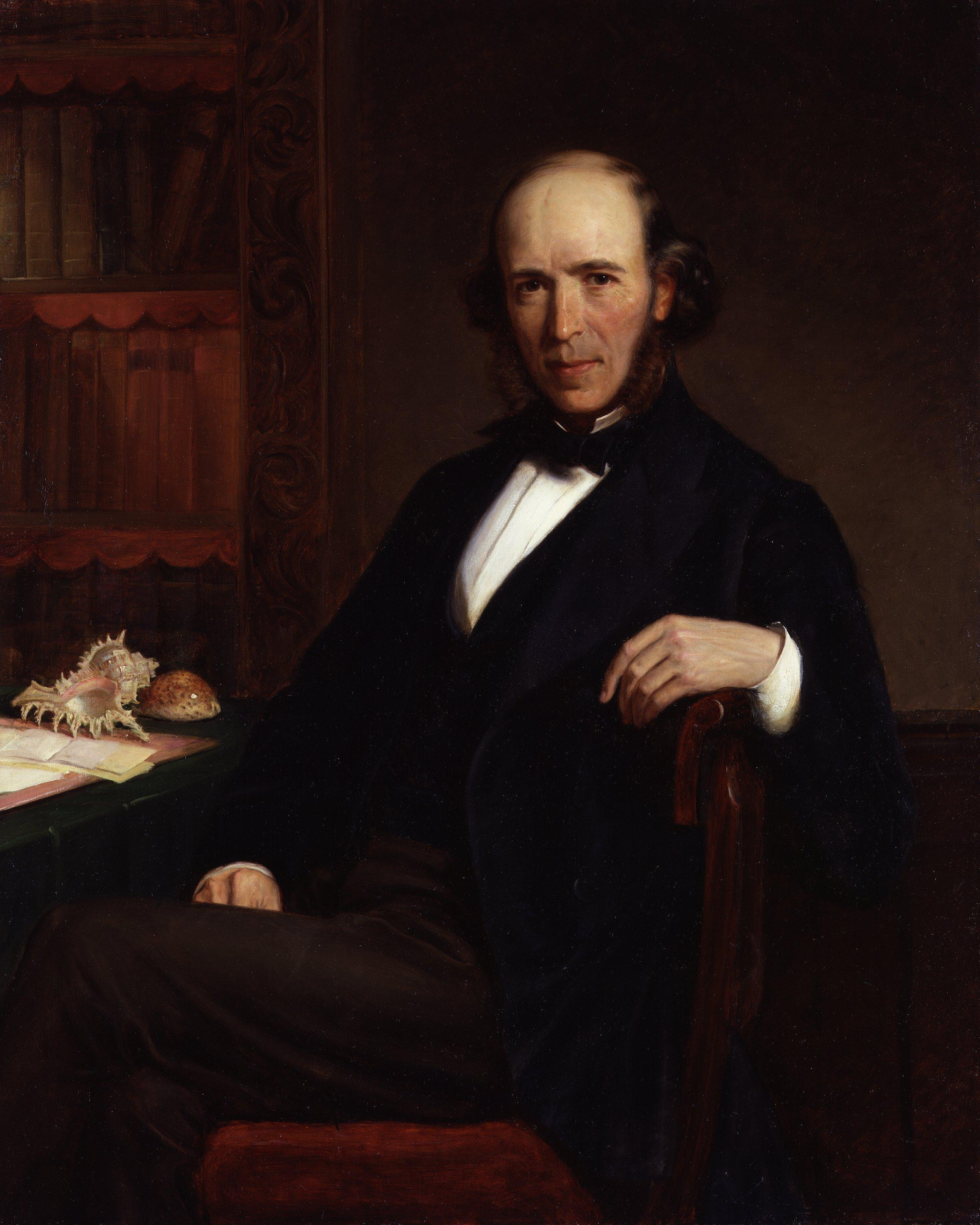 Herbert Spencer, by John Bagnold Burgess (died 1897). All images in this batch have been confirmed as author died before 1939 according to the official death date listed by the NPG.